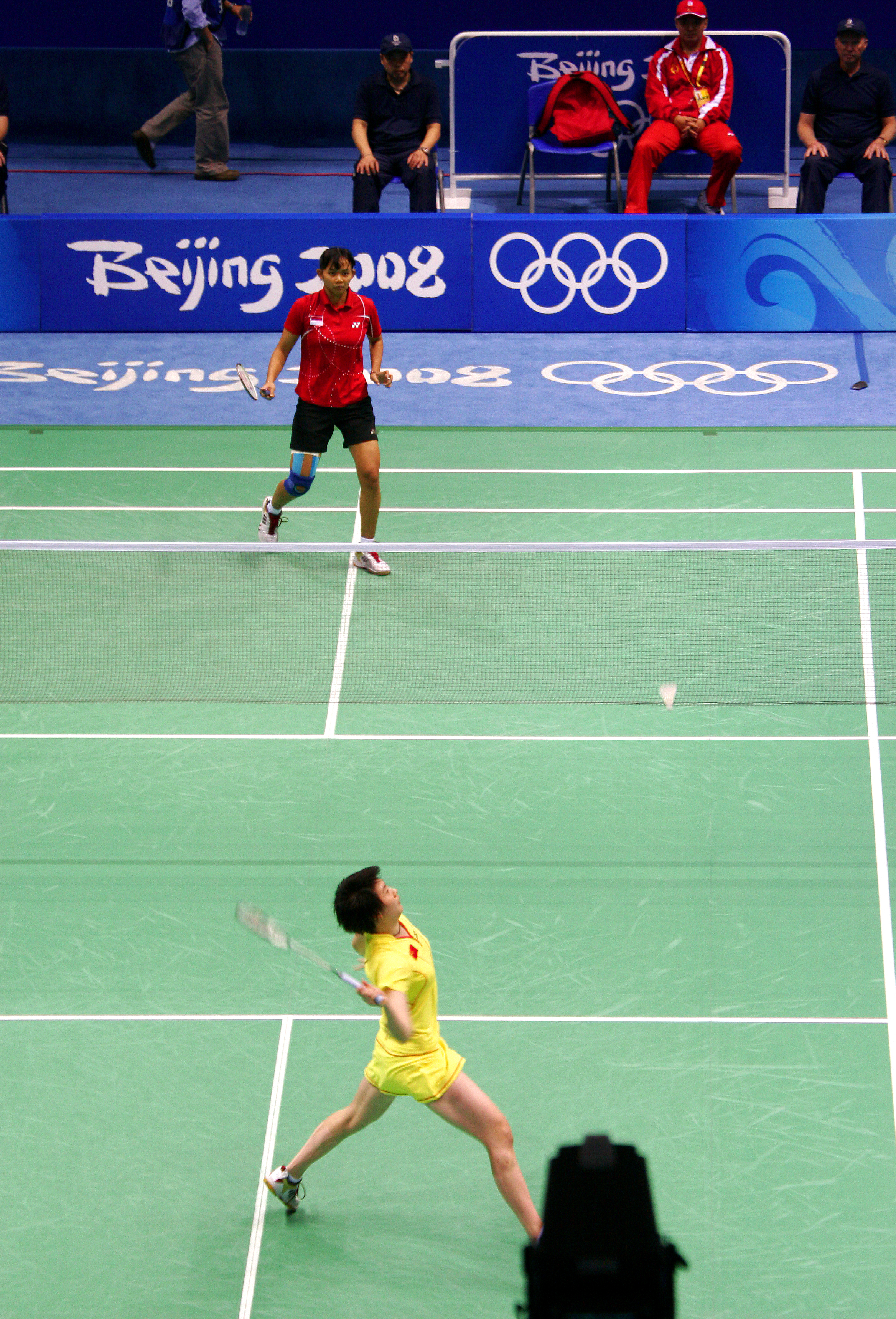 Lu Lan of China prepares to return the shuttlecock to Maria Kristin Yulianti of Indonesia. Yulianti went on to win bronze.